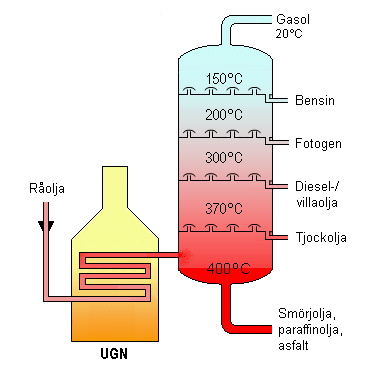 Diagram drawn by Theresa knott. This is a diagram of a typical, atmospheric pressure crude oil distillation tower used in petroleum refining (oil refineries).